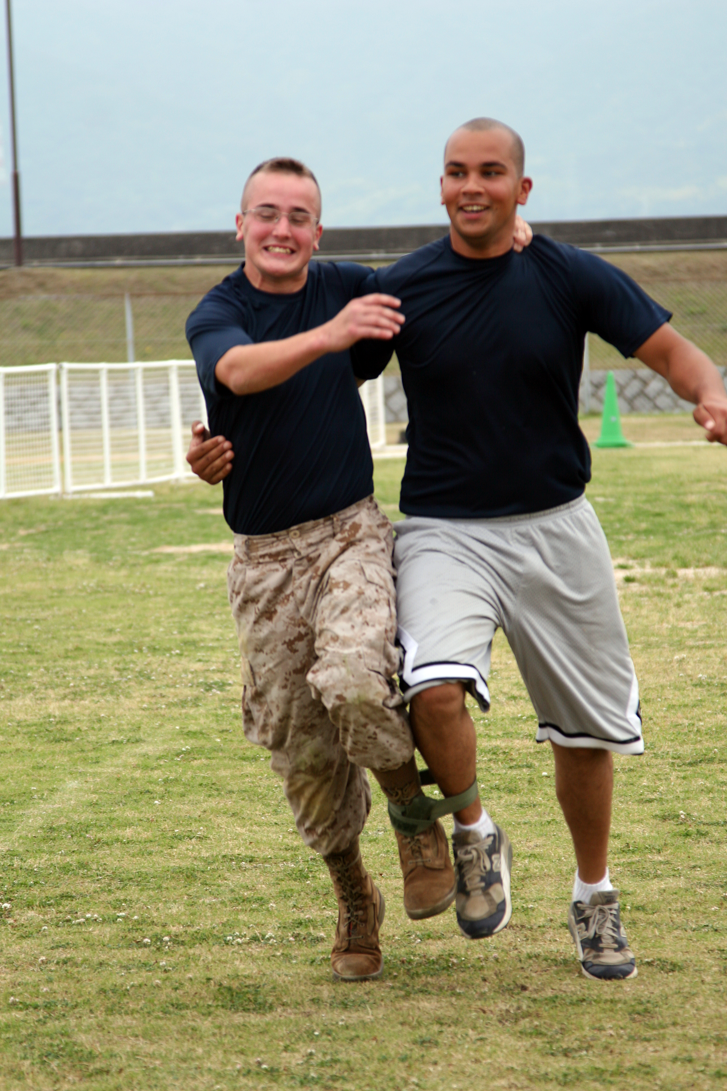 Members of the Air Fuel Operations team laugh as they struggled to race down the field during the three-legged race during the sports day at Penny Lake here June 5. The field meet had been in the works for about three months to give Marines of Marine Wing Support Squadron 171 a well-deserved day off.